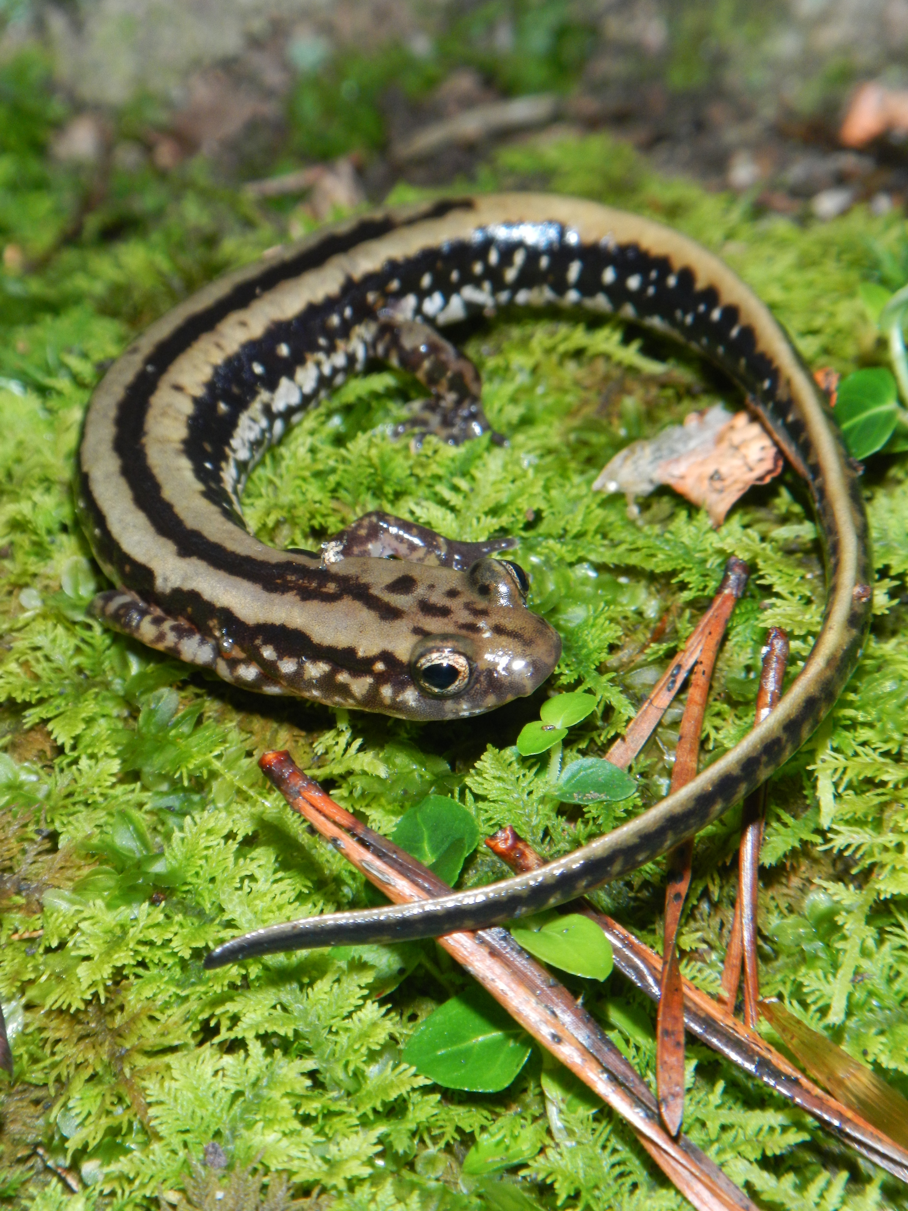 Three-lined salamander (Eurycea guttolineata), Prince William Forest Park, Virginia, USA.